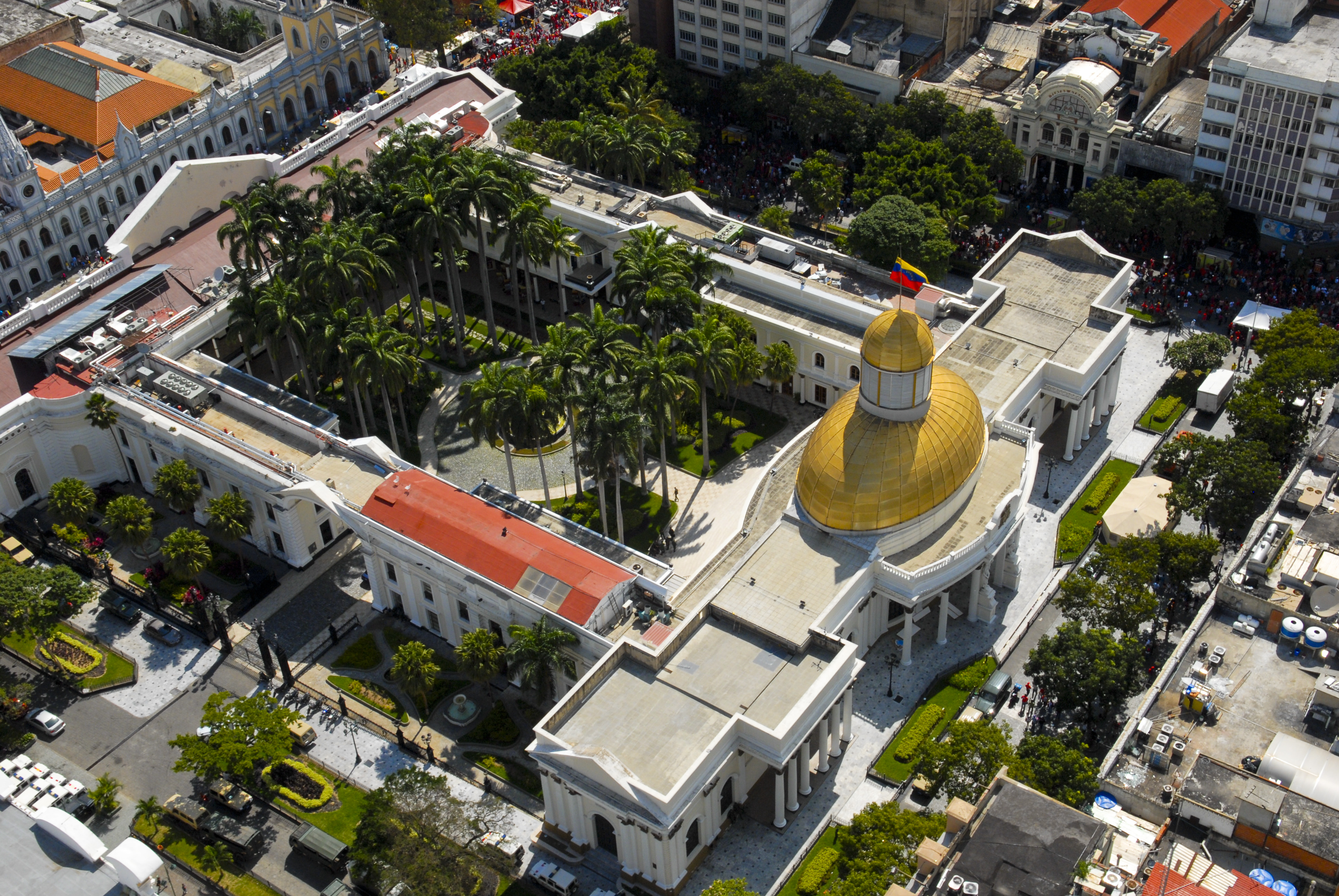 Aerial View of the Legislative Palace. Caracas, Venezuela.